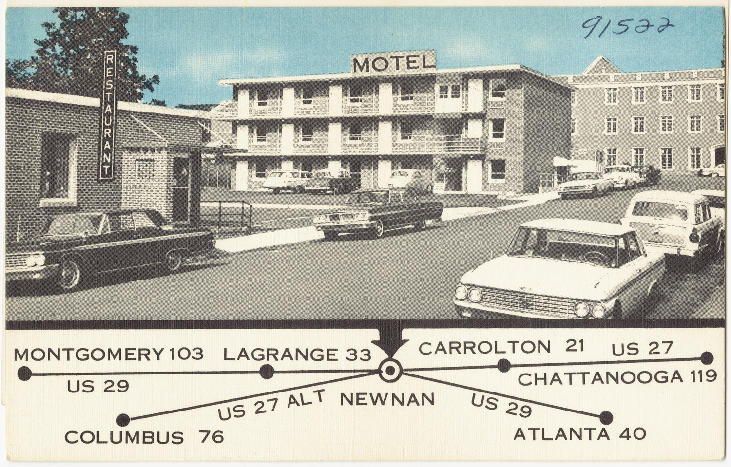 File name: 06_10_014163 Title: Heart of Newnan Motel, 25 LaGrange Street, Newnan, Georgia Date issued: 1930 - 1945 (approximate) Physical description: 1 print (postcard) : linen texture, color ; 3 1/2 x 5 1/2 in. Genre: Postcards Subject: Motels Notes: Title from item. Collection: The Tichnor Brothers Collection Location: Boston Public Library, Print Department Rights: No known restrictions